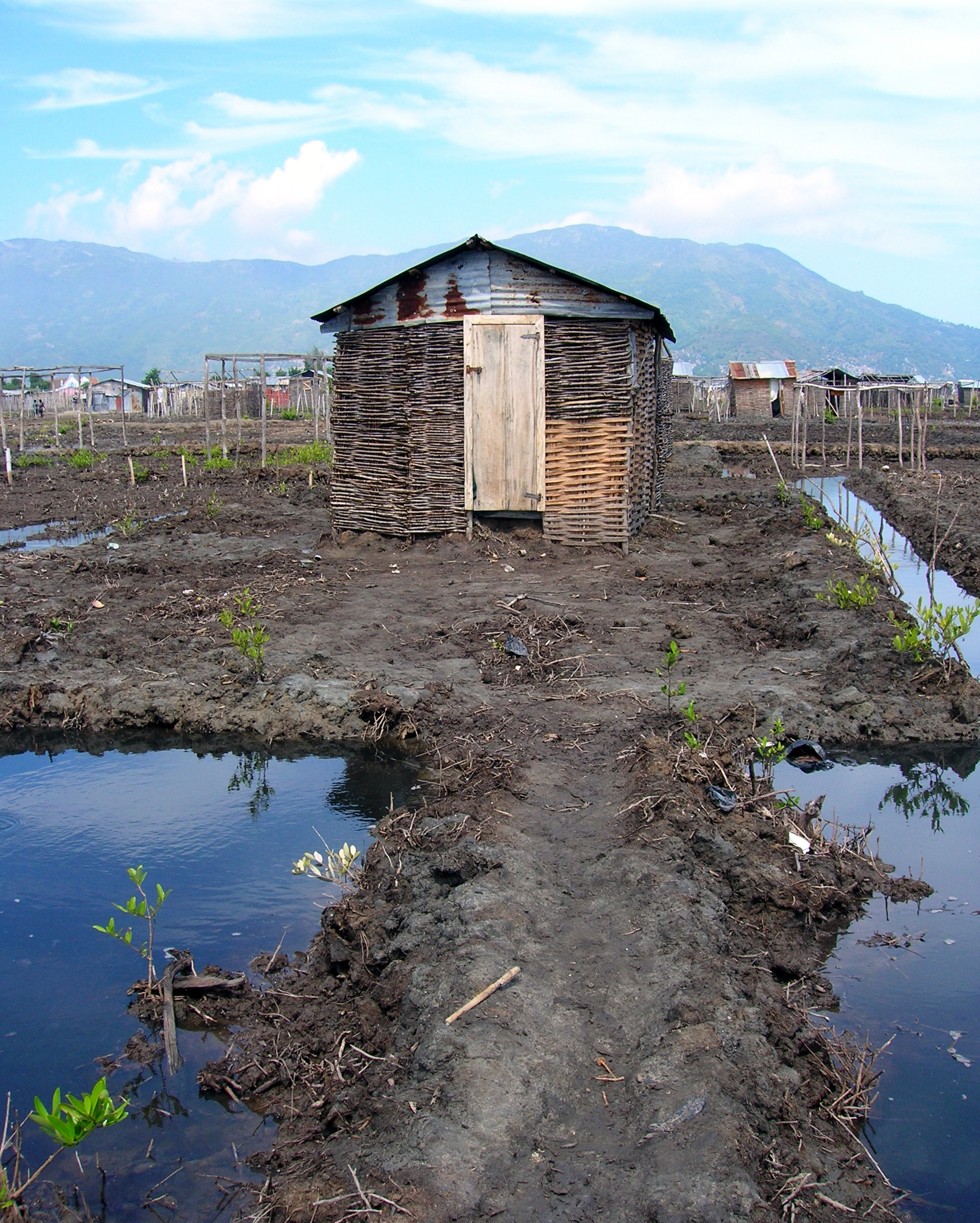 An isolated house, built in a mangrove forest in Petite-Anse, Haiti. Here, houses grow like mushrooms, all built on a plot of land that is only 10-20 cm abouve sea level. Scam artists, calling themselves "property developers," unscrupulously sell plots of land like this for as much as $300. The tide moves up and down very unpredictably, leaving shacks like these vulnerable to hurricane and flood damage.